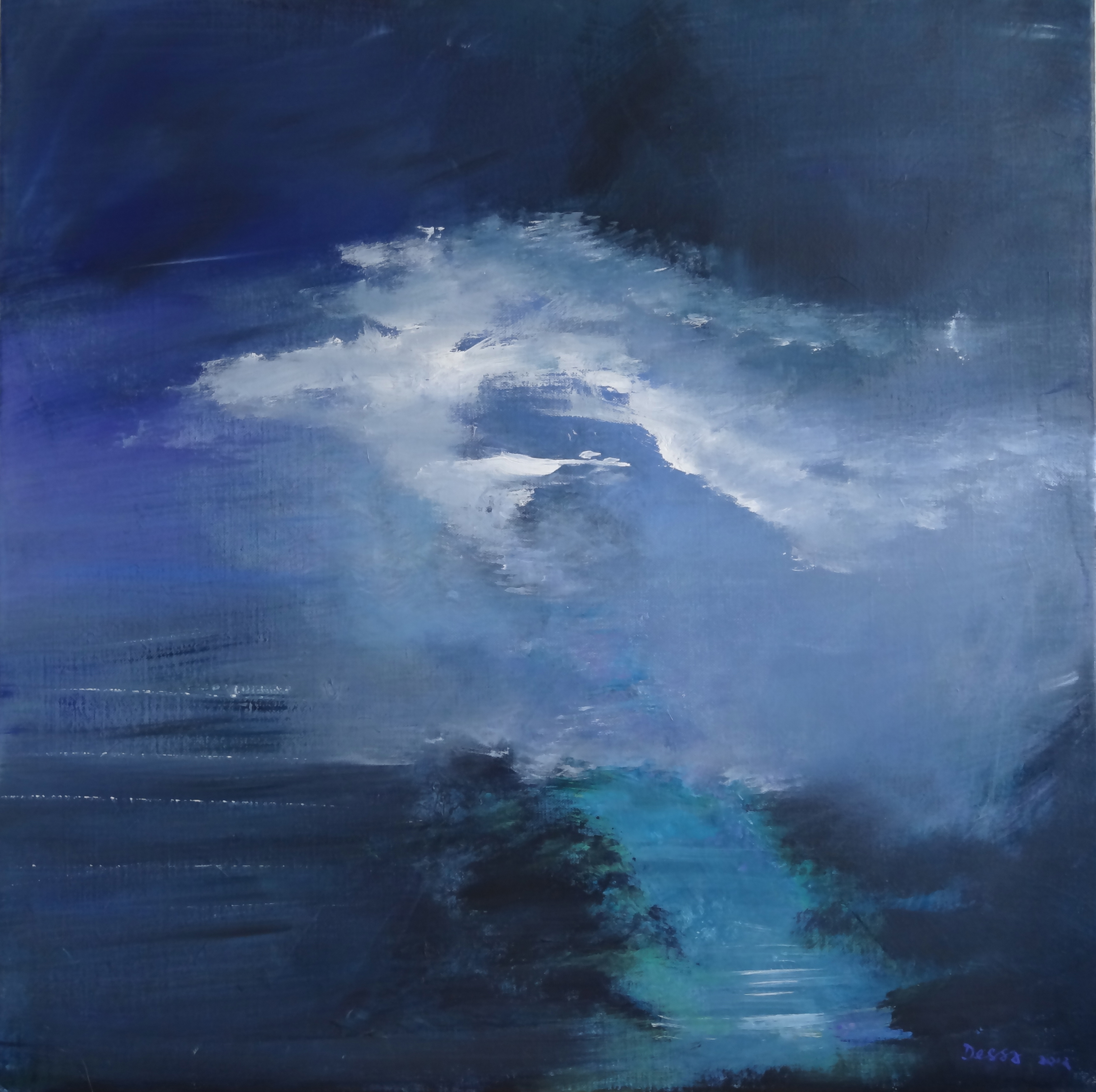 from the series «Composition - Benjamin Britten» 80 x 80 cm, acrylic on canvas.